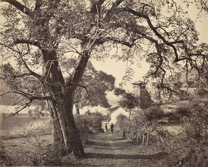 Temple on the Bhimtal Lake, Bhimtal, 1864. Built by the Chand King, Baz Bahadur, 1638-78 AD, the Raja of Kumaon, in the 17th century; also seen is a sacred Peepal tree.